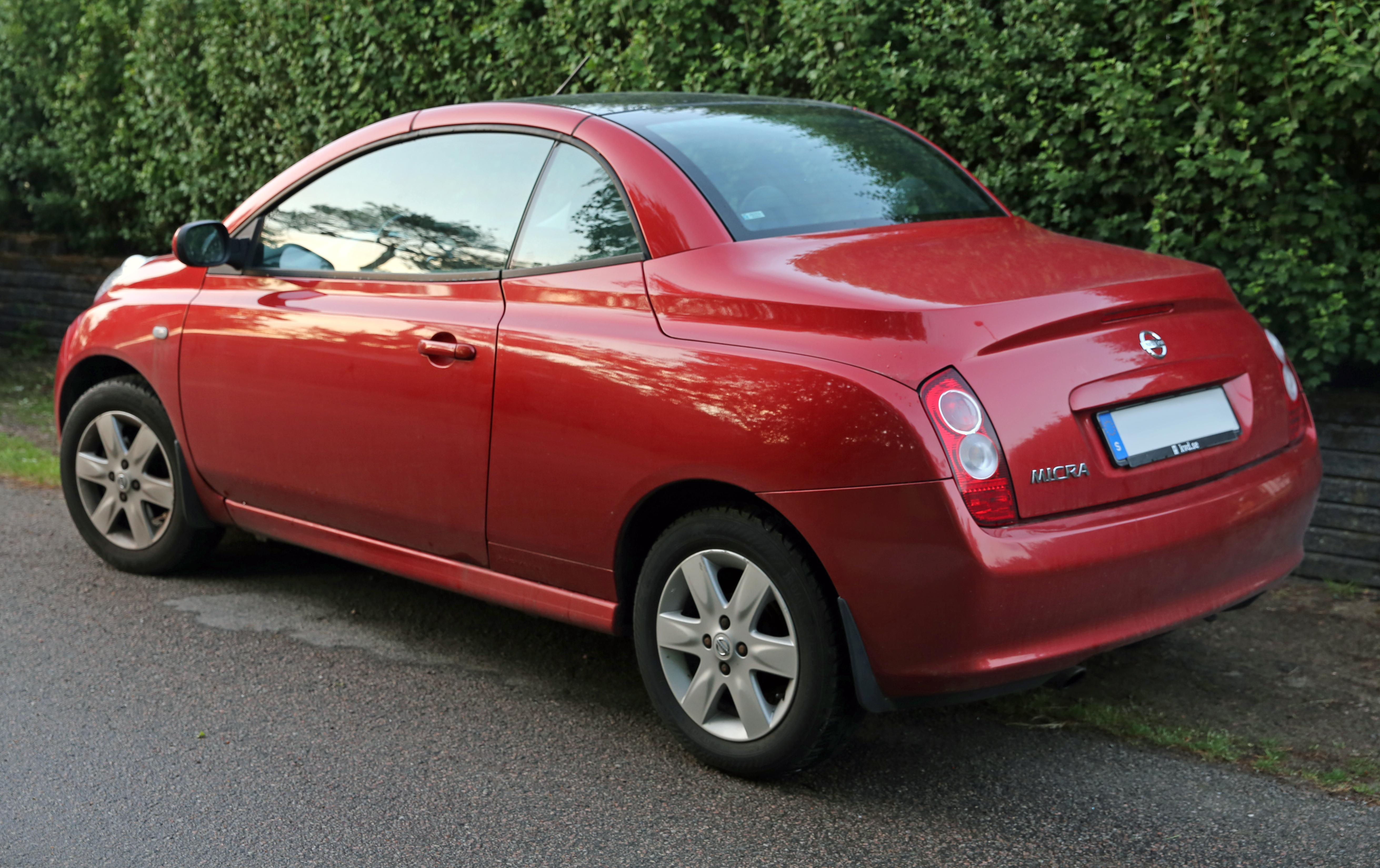 The rear left ¾ view of a 2006 Nissan Micra C+C 1.6 (K12) in Sweden. Vehicle registration enquiry resultsJurisdictionSwedenRegistrationXYH559Chassis codeSJN2EAK12U6012215Engine code81kW 1598cc petrol, 5MTCompliance date2006-03 (build), compliance E11*2001/116*0195*05Year of manufacture2006, first reg 2006-06-01Weight1230 kg